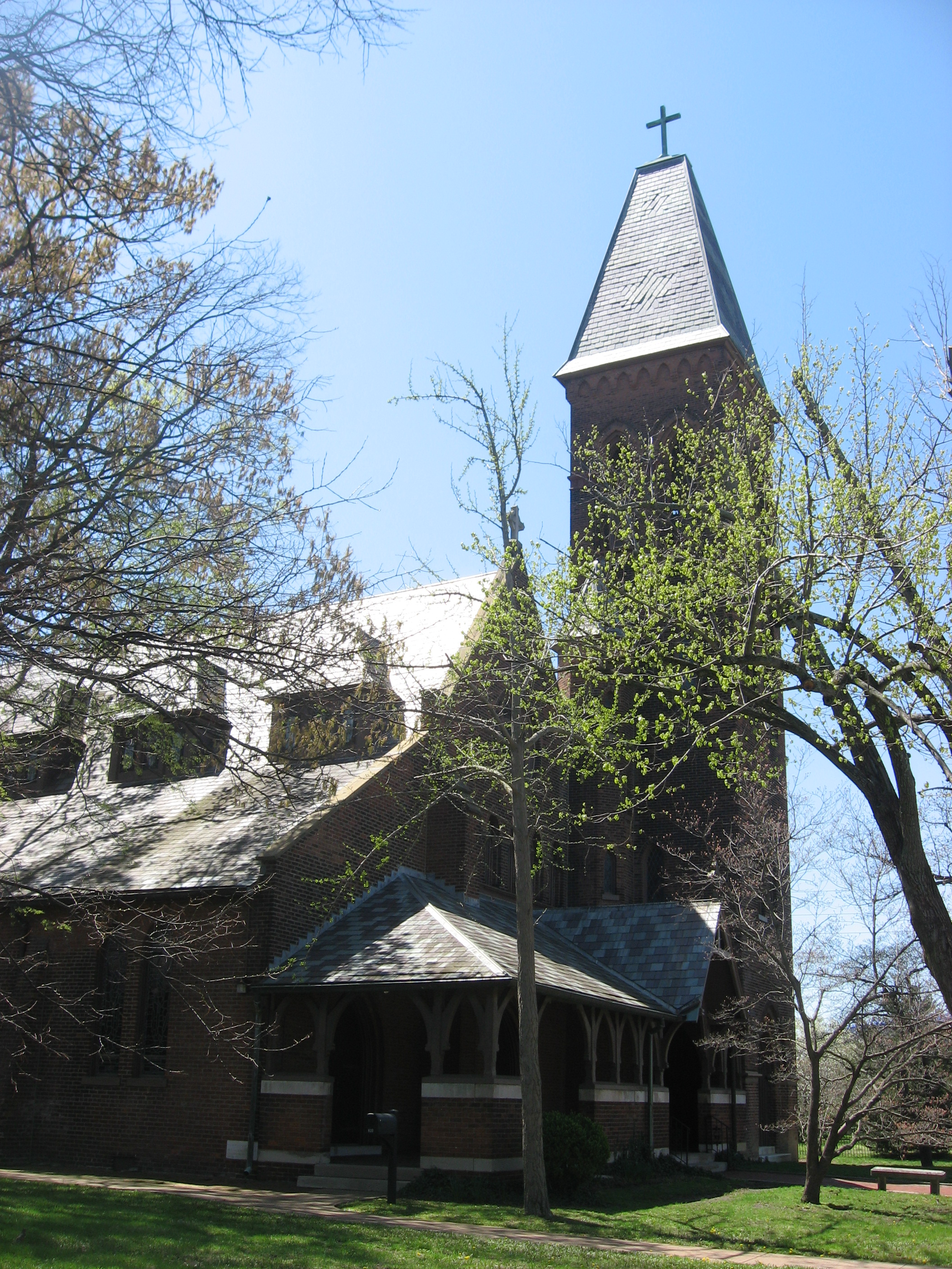 Front of Grace Episcopal Church, located at 820 Broadway in Paducah, Kentucky, United States. Built in 1873, it is listed on the National Register of Historic Places.